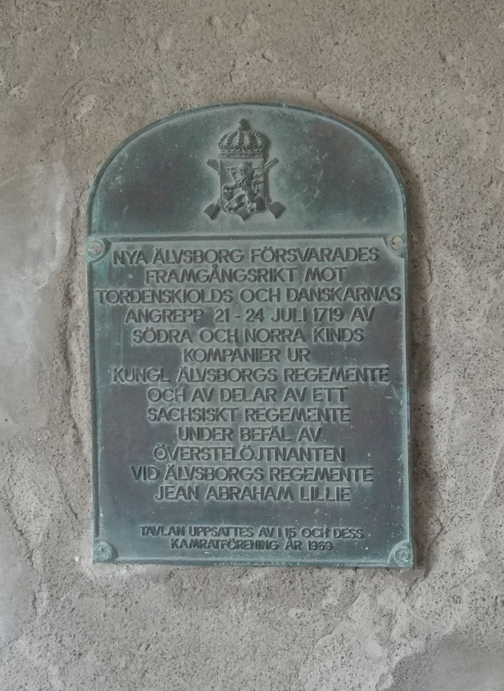 Commemorative plaque at fortress Nya Älvsborg, Gothenburg, Sweden. In memory of soldiers and commander from Älvsborg regiment during the siege 1719.